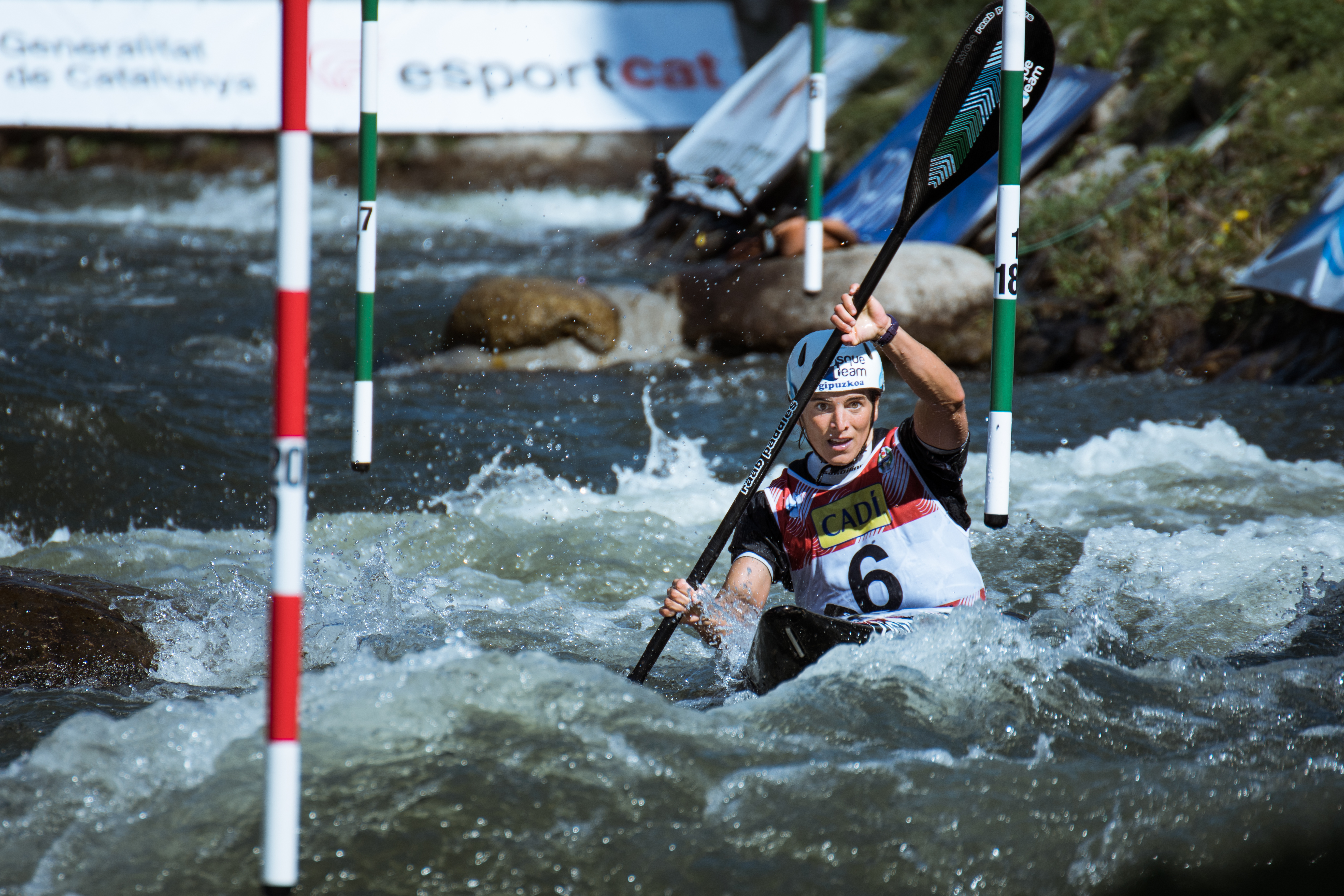 Maialen Chourraut during the 2019 Canoe Slalom World Championships in La Seu d'Urgell, Spain.